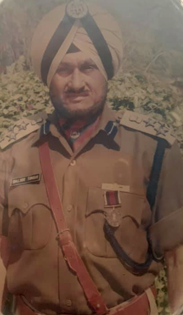 Picture of Retired D.I.G. and Olympian Balbir Singh Kullar, taken in 2001 before his retirement.